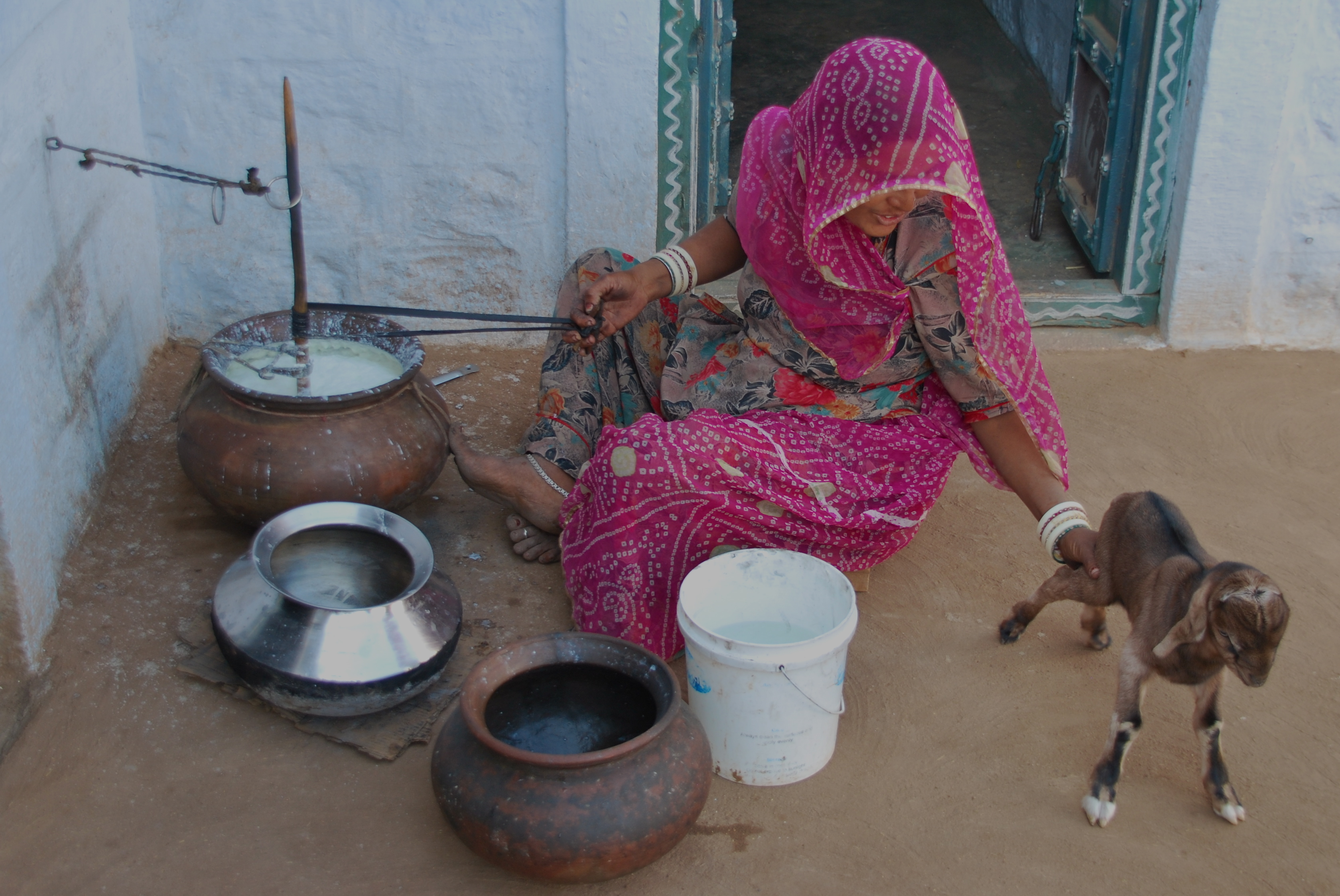 A bishnoi woman with animal.